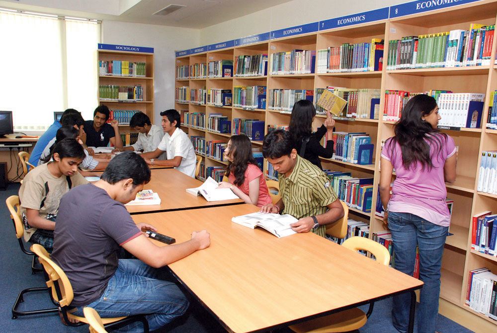 cu ghgh